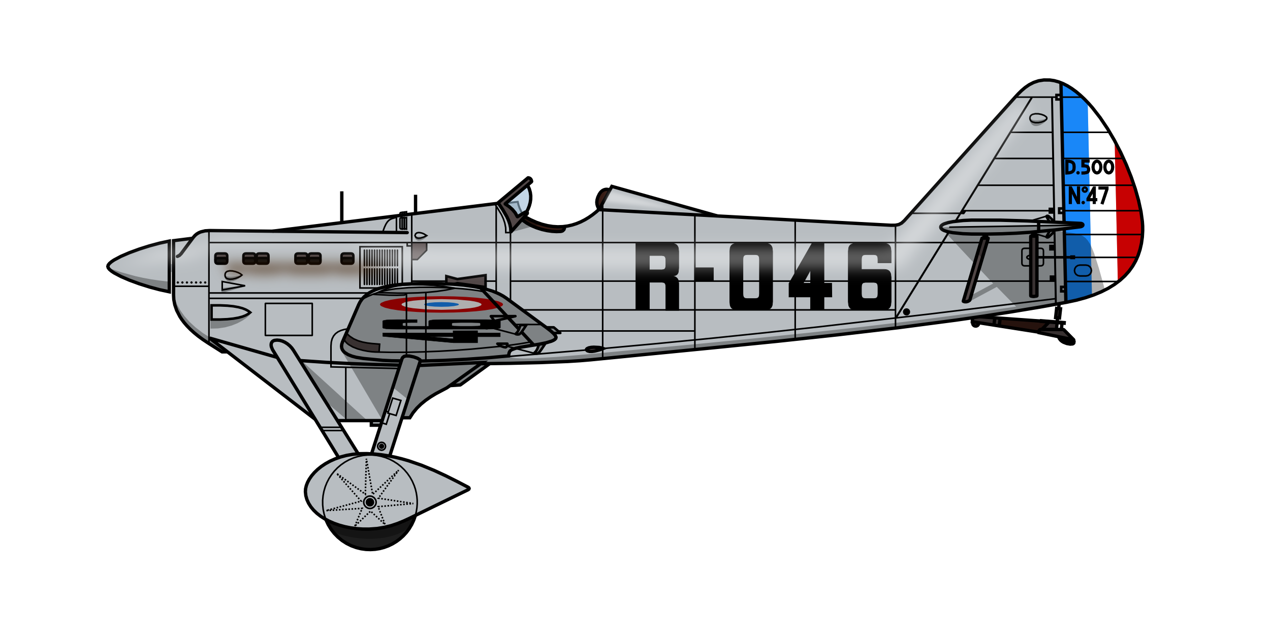 Profile of Dewoitine D.500 number 47 (R-046). This is the first mass-produced aircraft in the D.500 series, built by the S.A.F. Dewoitine (S.A.F. for Société Aéronautique Française, French Aeronautics Company). It flew for the first time on November the 29, 1934.